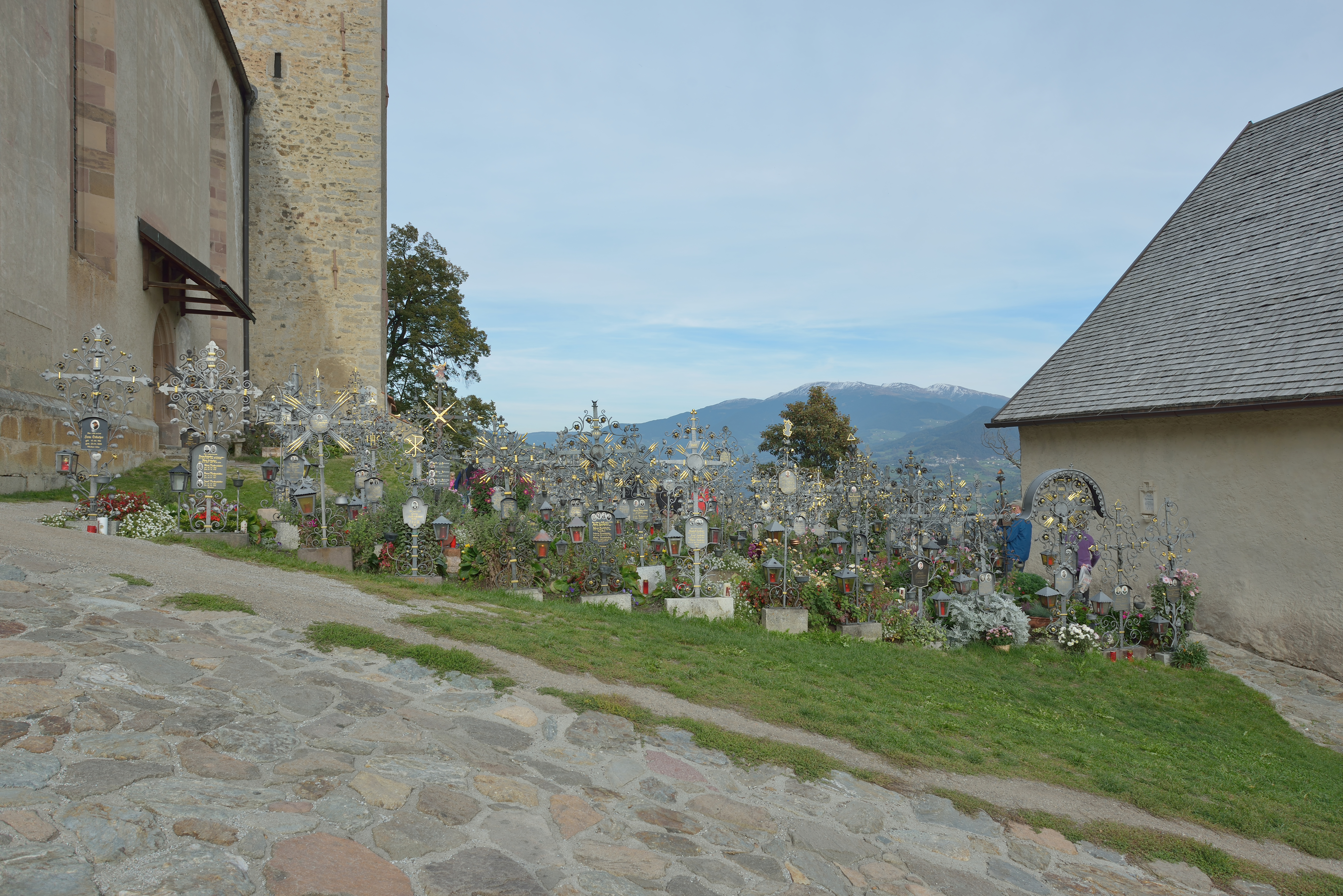 Cemetery next to the parish church of Villanders in South Tyrol